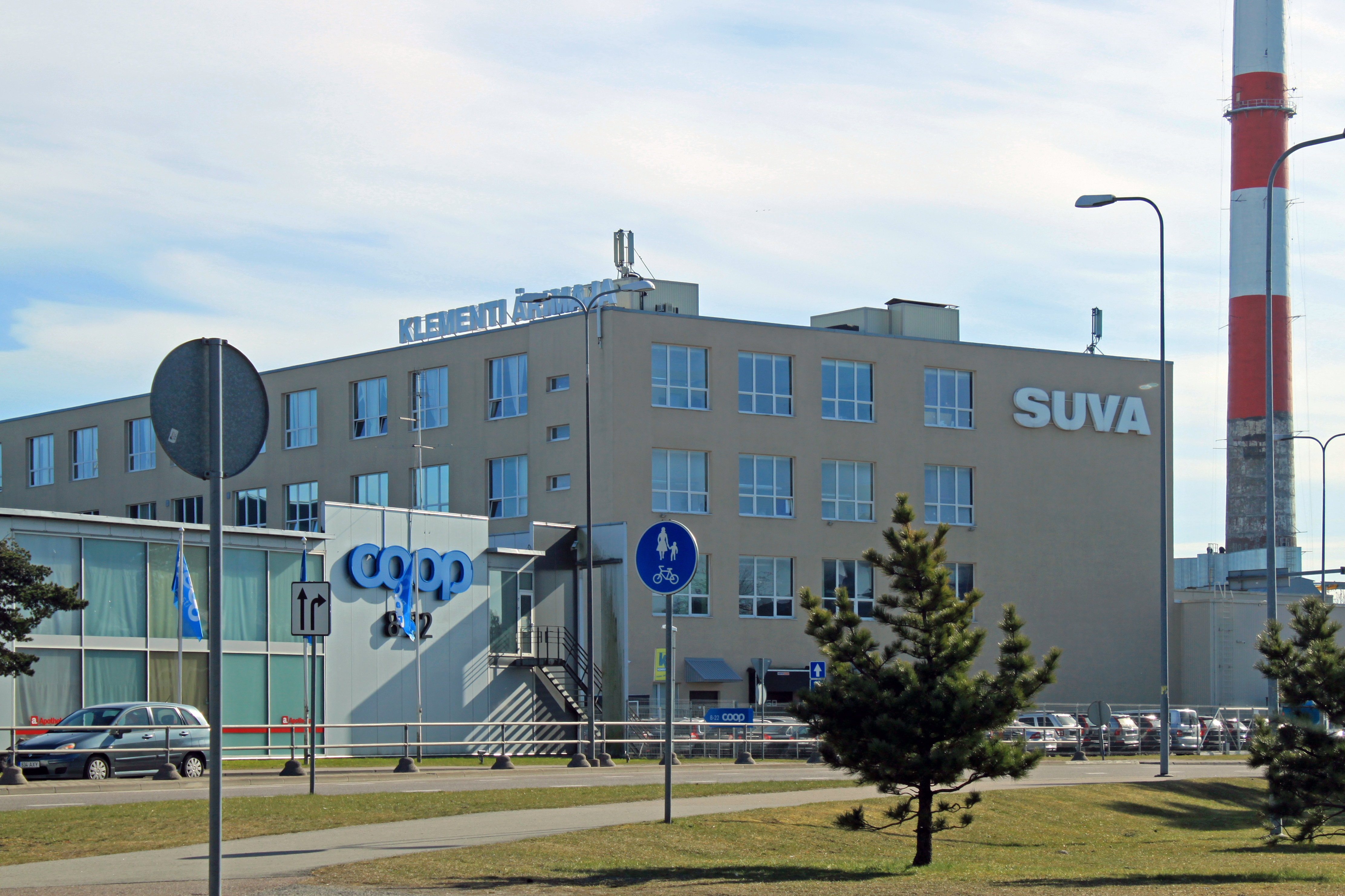 Commercial building "Klementi Ärimaja", Tallinn, Estonia